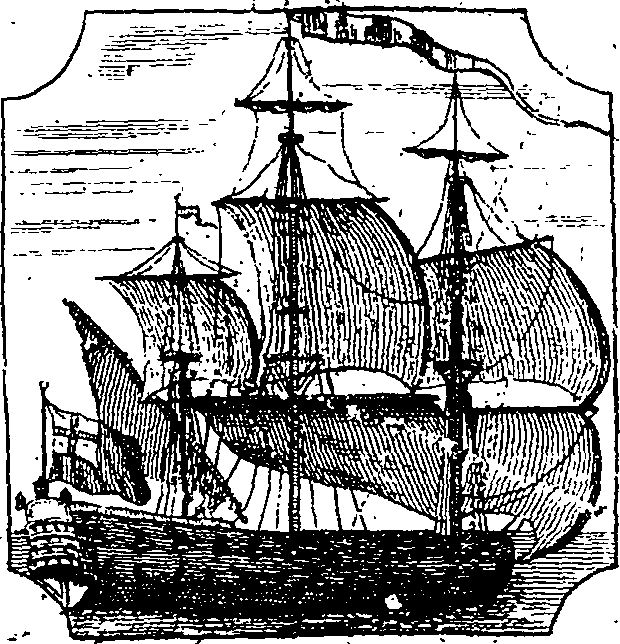 Fleuron from book: A voyage to Guinea, Brasil, and the West-Indies; in His Majesty's Ships, the Swallow and Weymouth. Describing the several Islands and Settlements, Viz-Madeira, the Canaries, Cape de Verd, Sierraleon, Sesthos, Cape Apollonia, Cabo Corso, and others on the Guinea Coast; Barbadoes, Jamaica, &c. in the West-Indies. The Colour, Diet, Languages, Habits, Manners, Customs, and Religions of the respective Natives, and Inhabitants. With Remarks on the Gold, Ivory, and Slave-Trade; and on the Winds, Tides and Currents of the several Coasts. By John Atkins, Surgeon in the Royal Navy.